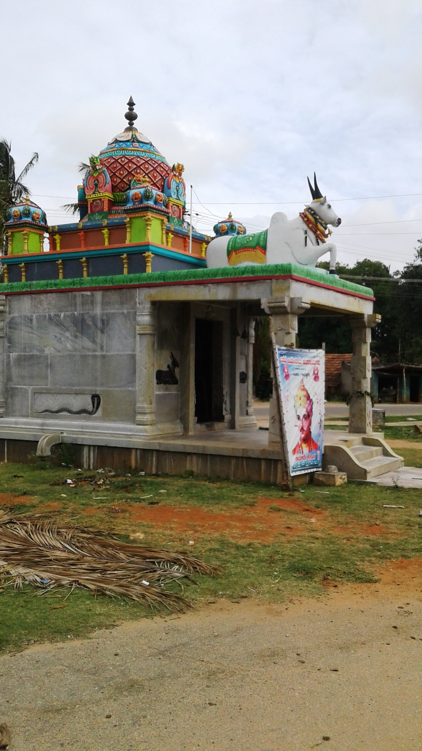 Kikkeri to Sravanabelagola Road, Mandya district, Karnataka state, India.